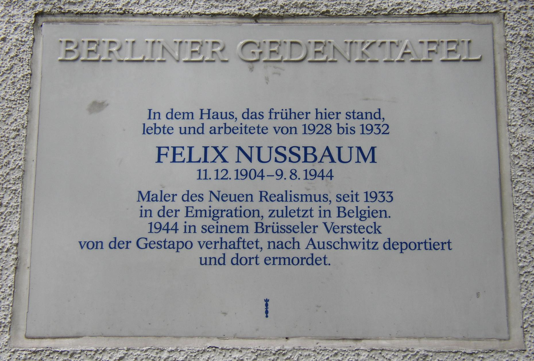 Berlin memorial plaque for Felix Nussbaum in Berlin-Wilmersdorf, Germany